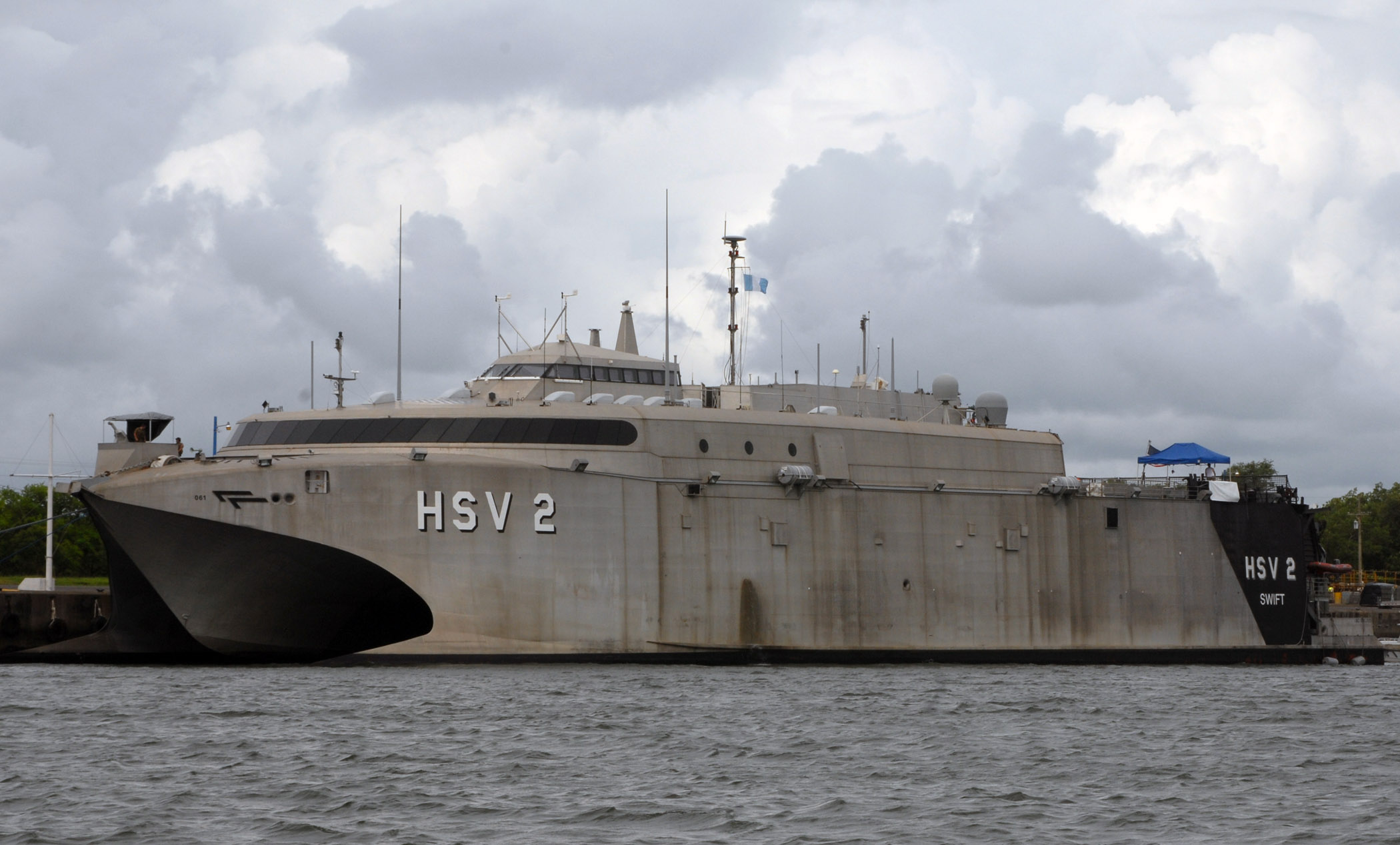 PUERTO QUETZAL, Guatemala (July 13, 2010) High Speed Vessel Swift (HSV 2) is moored in Puerto Quetzal, Guatemala. Swift is deployed supporting Southern Partnership Station 2010, a deployment of various specialty platforms to the U.S. Southern Command area of responsibility in the Caribbean and Central America. (U.S. Navy photo by Mass Communication Specialist 1st Class Rachael L. Leslie/Released)